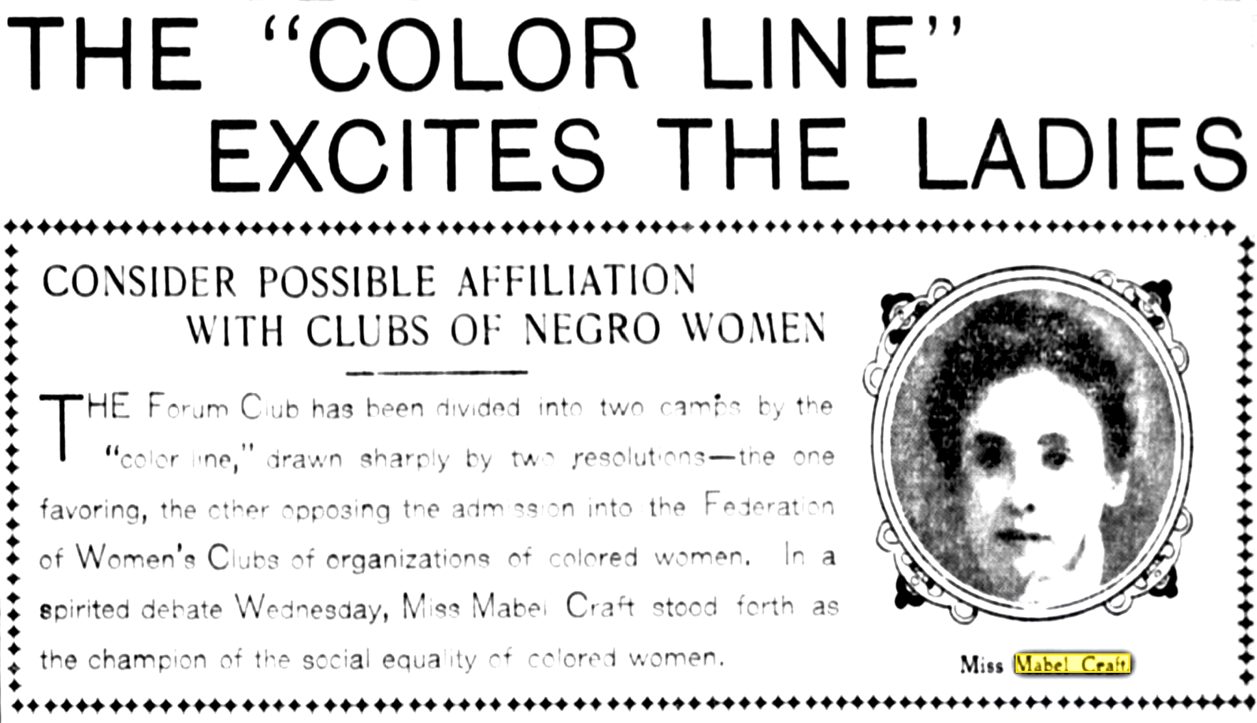 This blurb, or introduction, was placed above an article on the front page in the San Francisco Examiner of November 8, 1901, concerning a debate within the Forum Club, a women's organization within that city, over a proposal to admit Negro women to a national federation of women's clubs. It includes a photo of Mabel Craft, one of the proponents of the action.